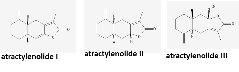 Atractylenolide I-III